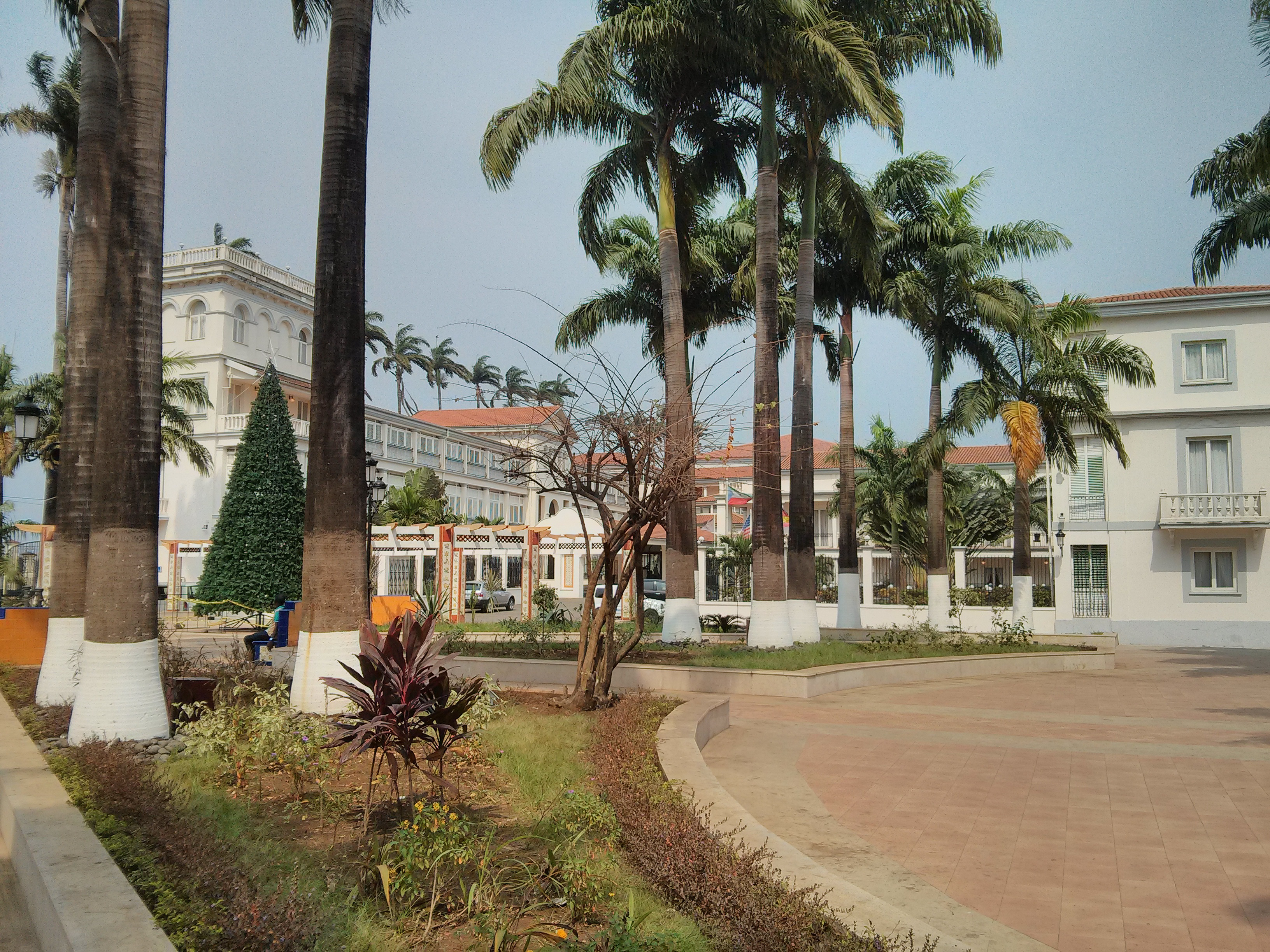 Luxushotel "Sofitel Malabo President Palace", Plaza de la Independencia, Centro Historico, Zona Presidencial, in Malabo, Equatorial Guinea